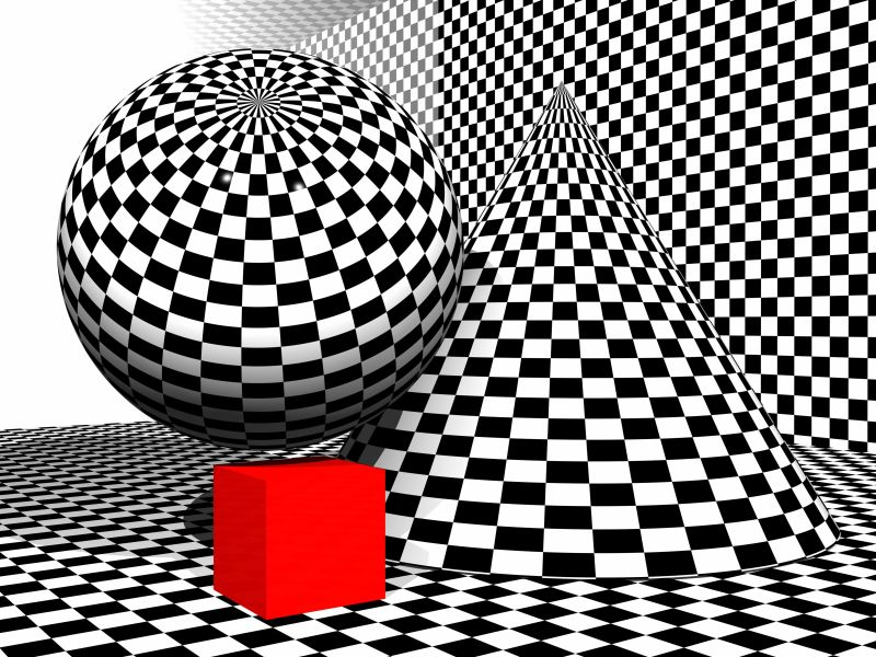 László Bagi Jr. , Hungarian graphic: New Op-art